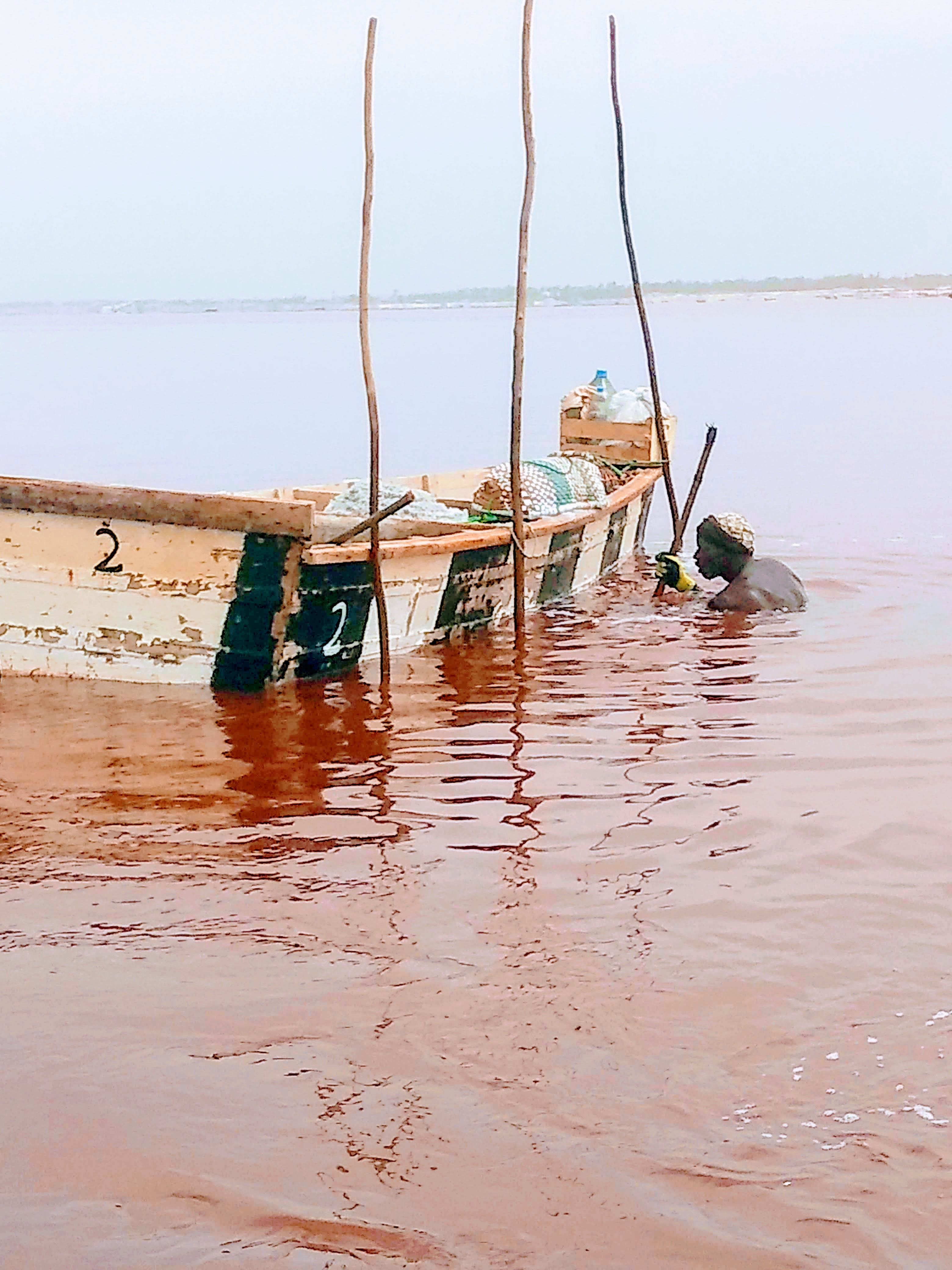 This is an image with the theme "Africa on the Move or Transport" from: Senegal